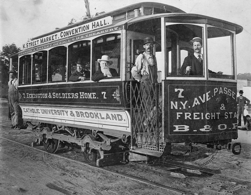 Street car, Washington, D.C. .